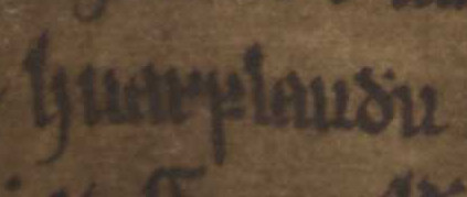 An excerpt from folio 59r of AM 132 fol (Möðruvallabók). The excerpt concerns Hvarflǫð Hlǫðvisdóttir, wife of Gilli, Earl of the Suðreyjar.